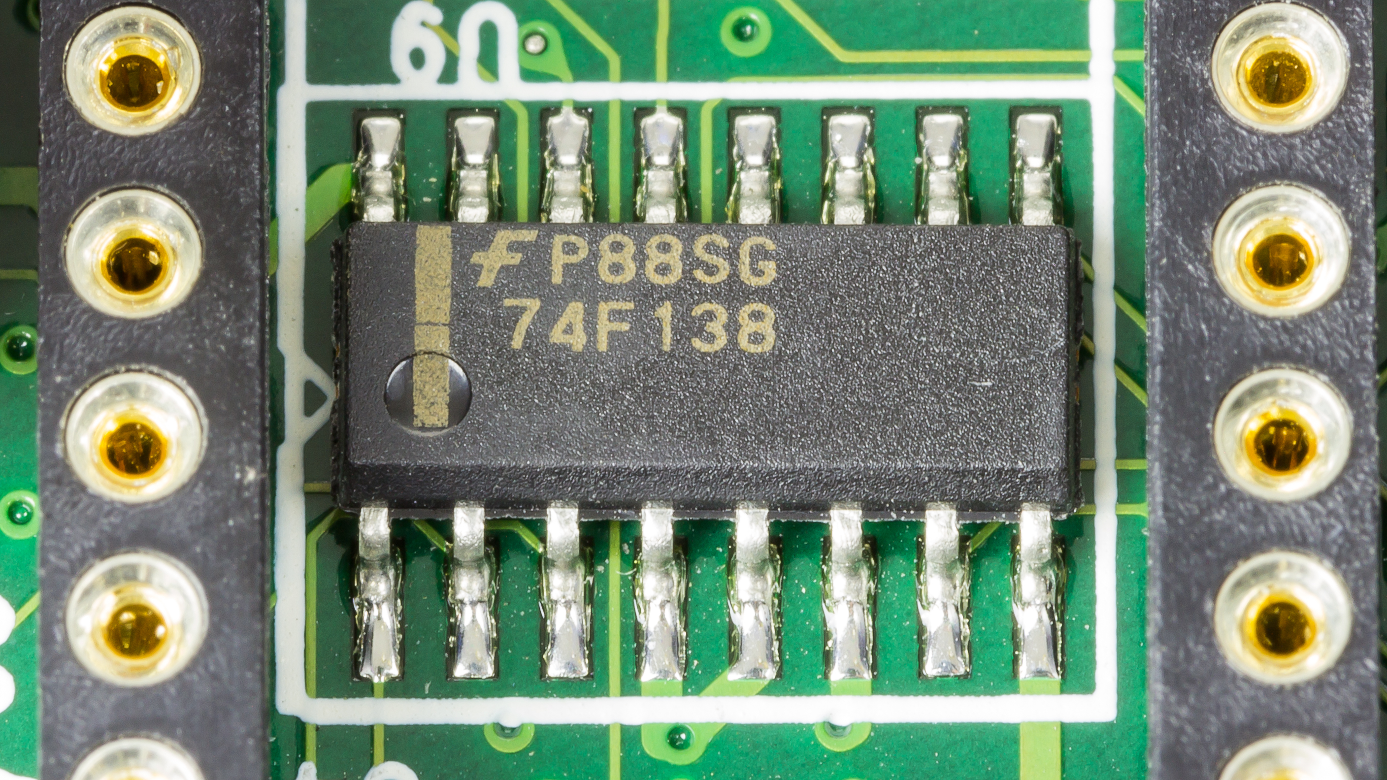 ROCKY-518HV - Fairchild 74F138 (1-of-8 Decoder/Demultiplexer)